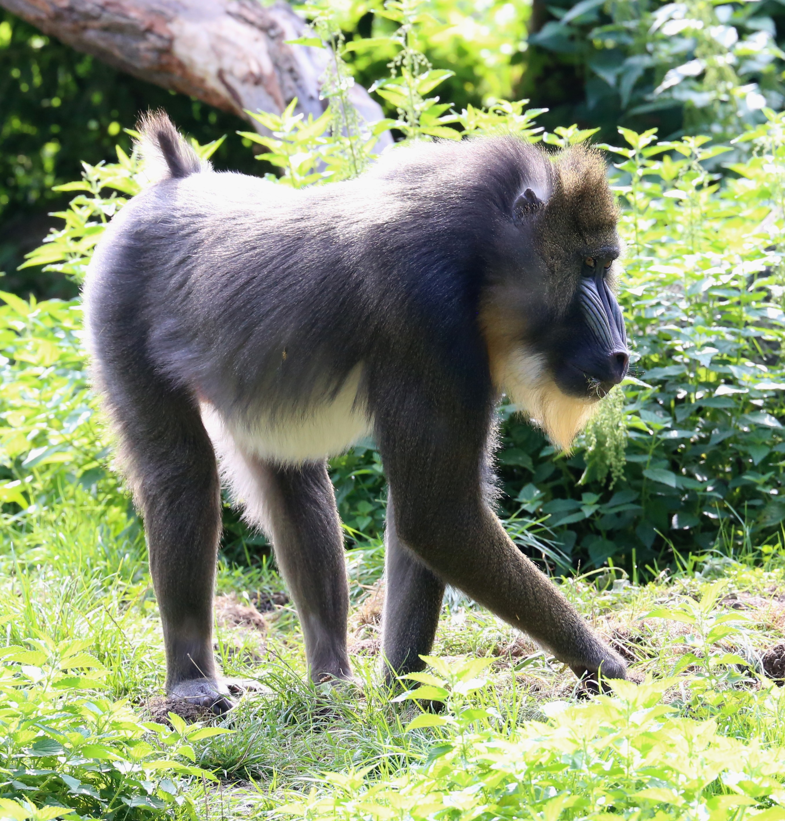 Mandrill, Mandrillus sphinx, Zoo Augsburg